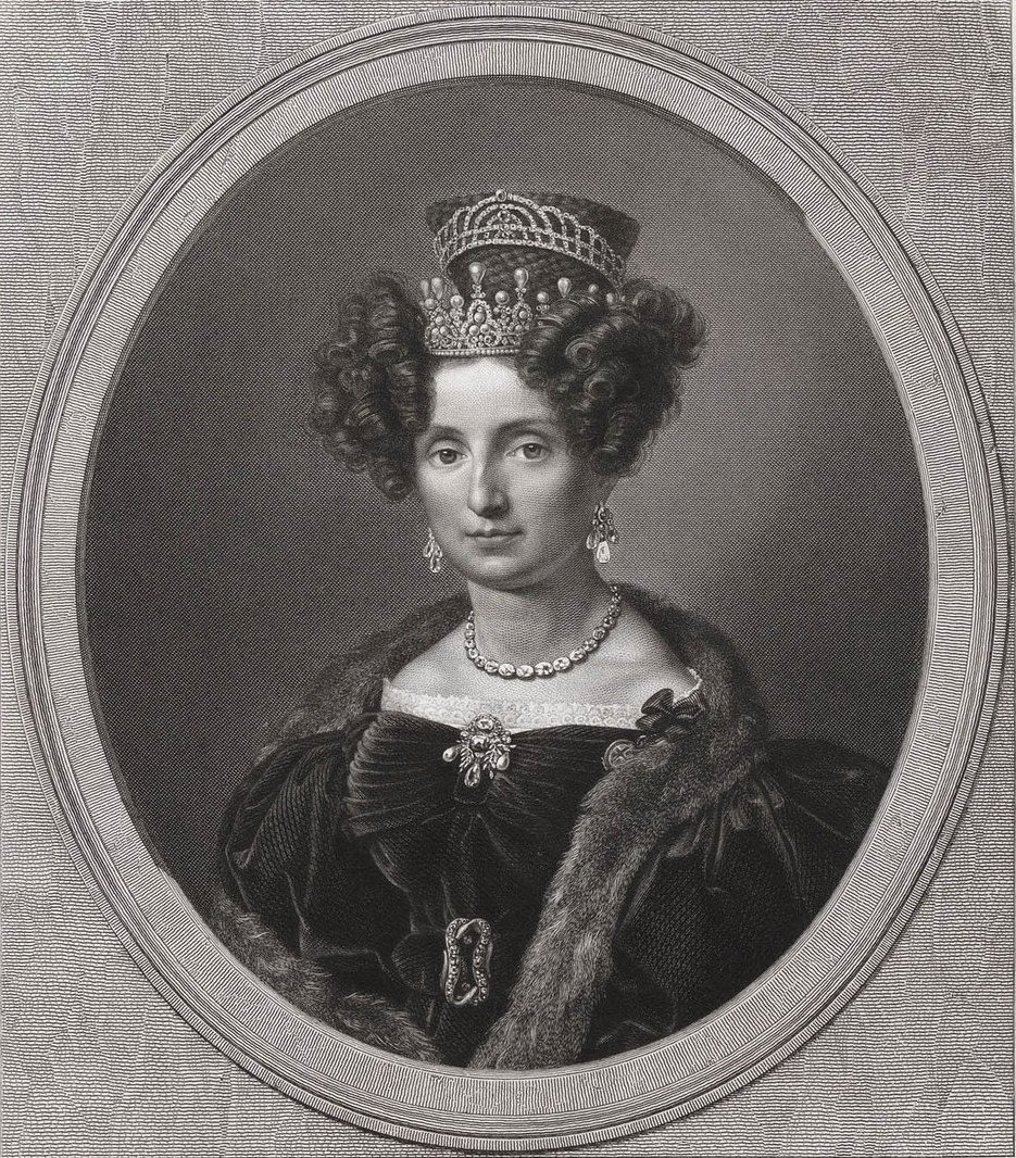 Princess Maria Anna of Saxony (1799–1832), Grand Duchess of Tuscany